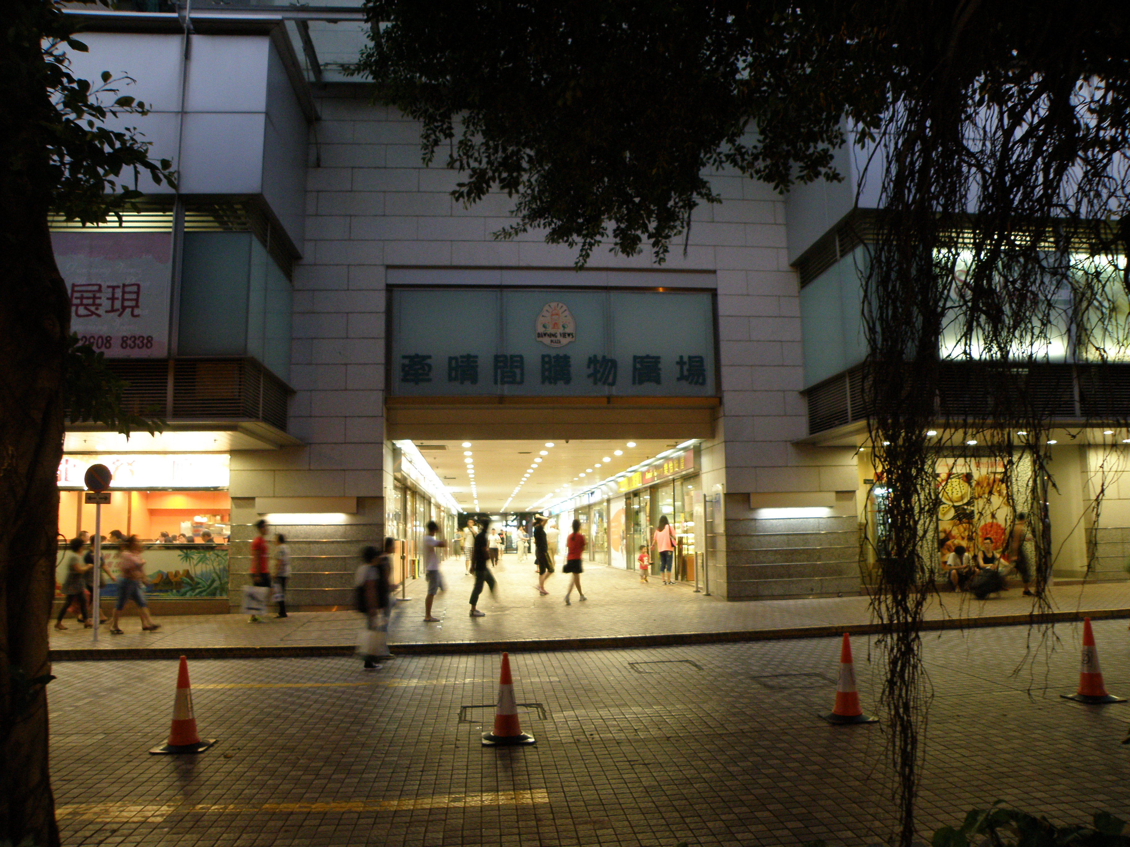 Dawning Views Plaza in Fanling, Hong Kong.